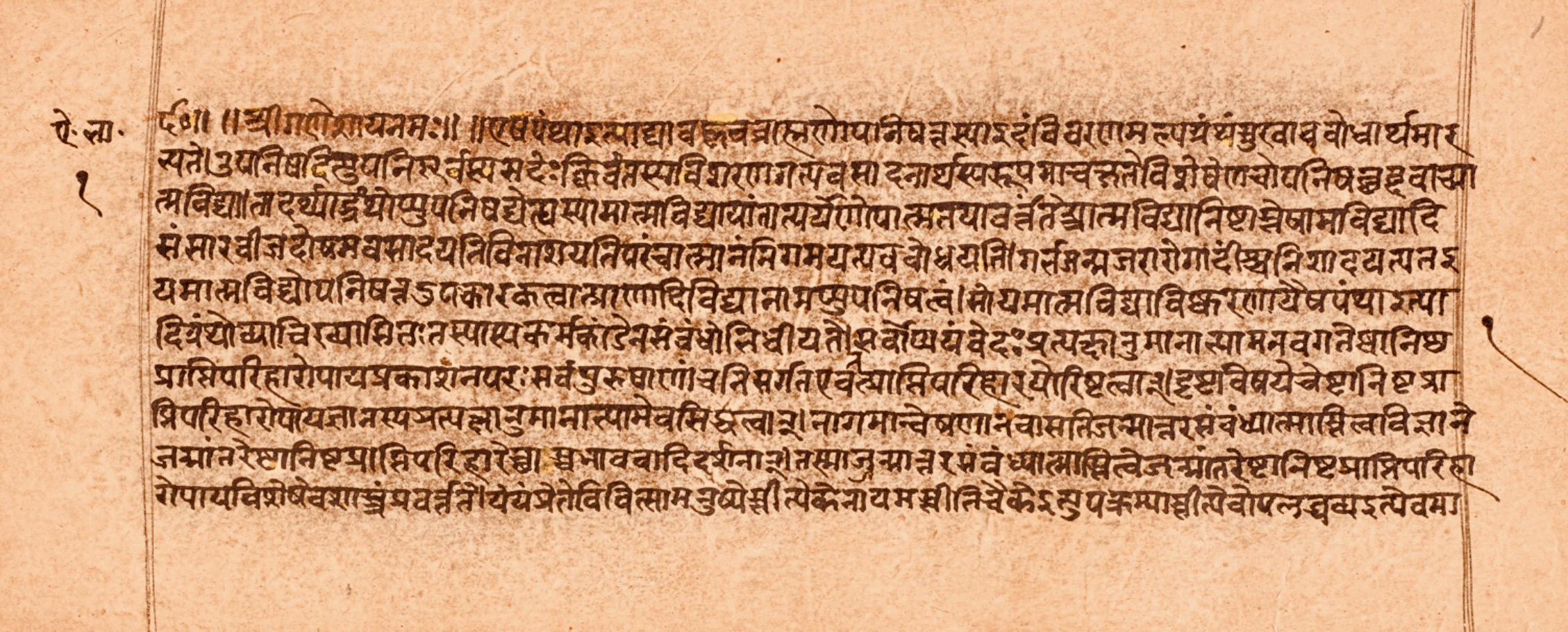 The early Upanishads are scriptures of Hinduism. The above image is from Aitareya Upanishad with commentary by Adi Shankara (c. 800 CE). The bolded letters are the text, the light diacritics, any colored marks, light dashes and dots under the letters are coded markers found in Sanskrit manuscripts for readers and reciters, i.e. dandas separate the words/sentences/verses, avagrahas for various compounds, circles for the galitas, and the particle iti. Colored or light texts on the margins are either corrections, or they are commentaries of the owner or some scholar / citations / reference-by-incorporation of another ancient Hindu scholar's work. Language: Sanskrit Script: Devanagari The manuscript was discovered in Varanasi (Kashi, Benares) – one of the largest colonial era source for ancient Sanskrit literature. Notably it was found in a Jain temple manuscript bhandara. It was bought by European collectors in the 19th-century. It is now preserved with the Cambridge University Sanskrit manuscript collection. The photo above is of a 2D artwork of a text that is over 2,000 years old, from a manuscript that was produced in 1863 CE. Therefore Wikimedia Commons PD-Art licensing guidelines apply. Any rights I have as a photographer is herewith donated to wikimedia commons under CC 4.0 license.